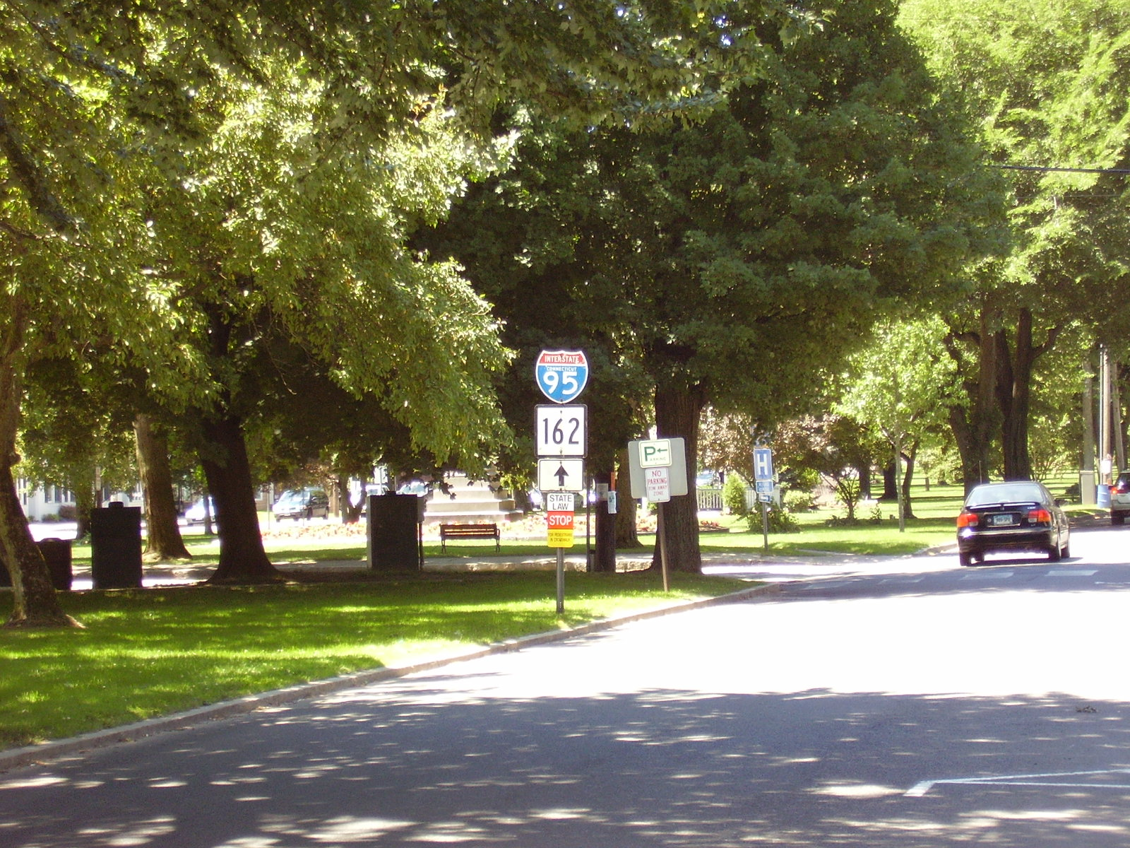 Westbound Connecticut Route 162 in downtown Milford (Conn.) showing the Milford Green.